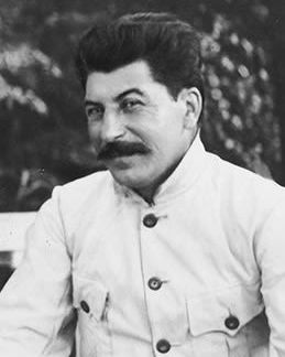 Cropped photograph of Joseph Stalin in 1922. Image cropped and shadow decreased using Photo Editor at Originally from File:Lenin and stalin crop.jpg. Photo by Maria Ulyanova